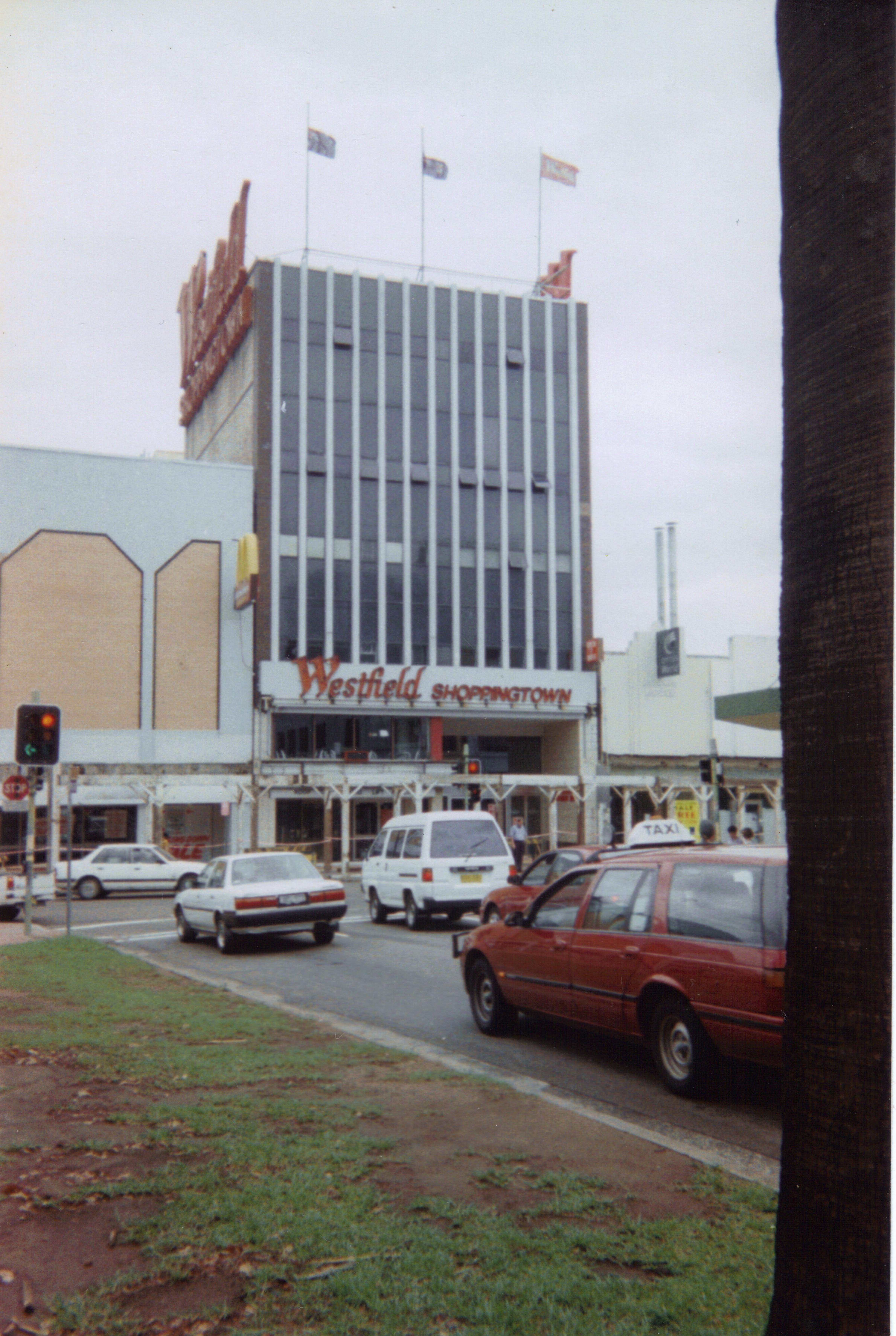 The old Westfield Burwood shopping centre, picture taken in 1999 from Burwood Park